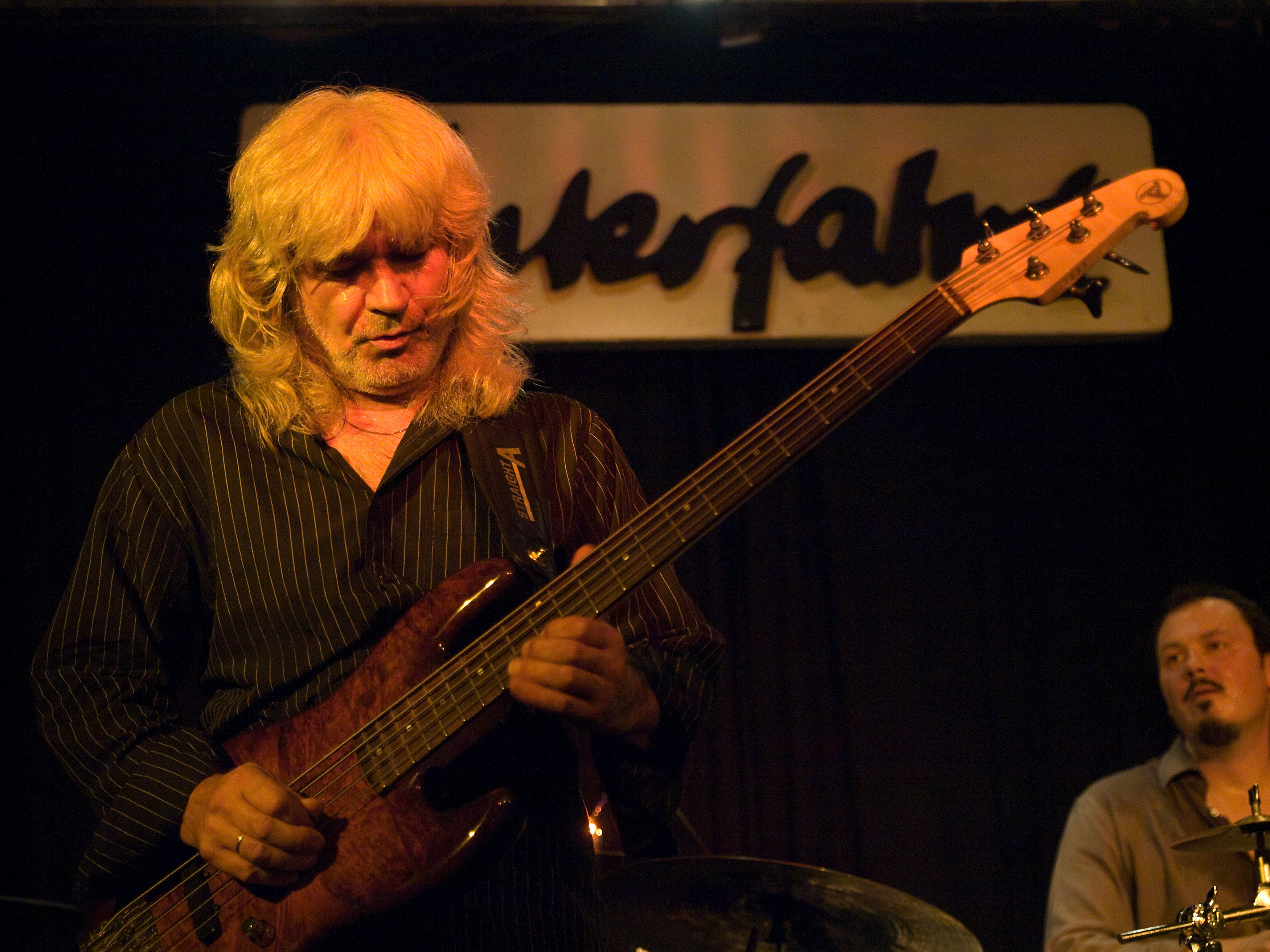 Wolfgang Schmid, Hot Wire electric bass, picture taken in Jazz club "Unterfahrt" in Munich/Germany